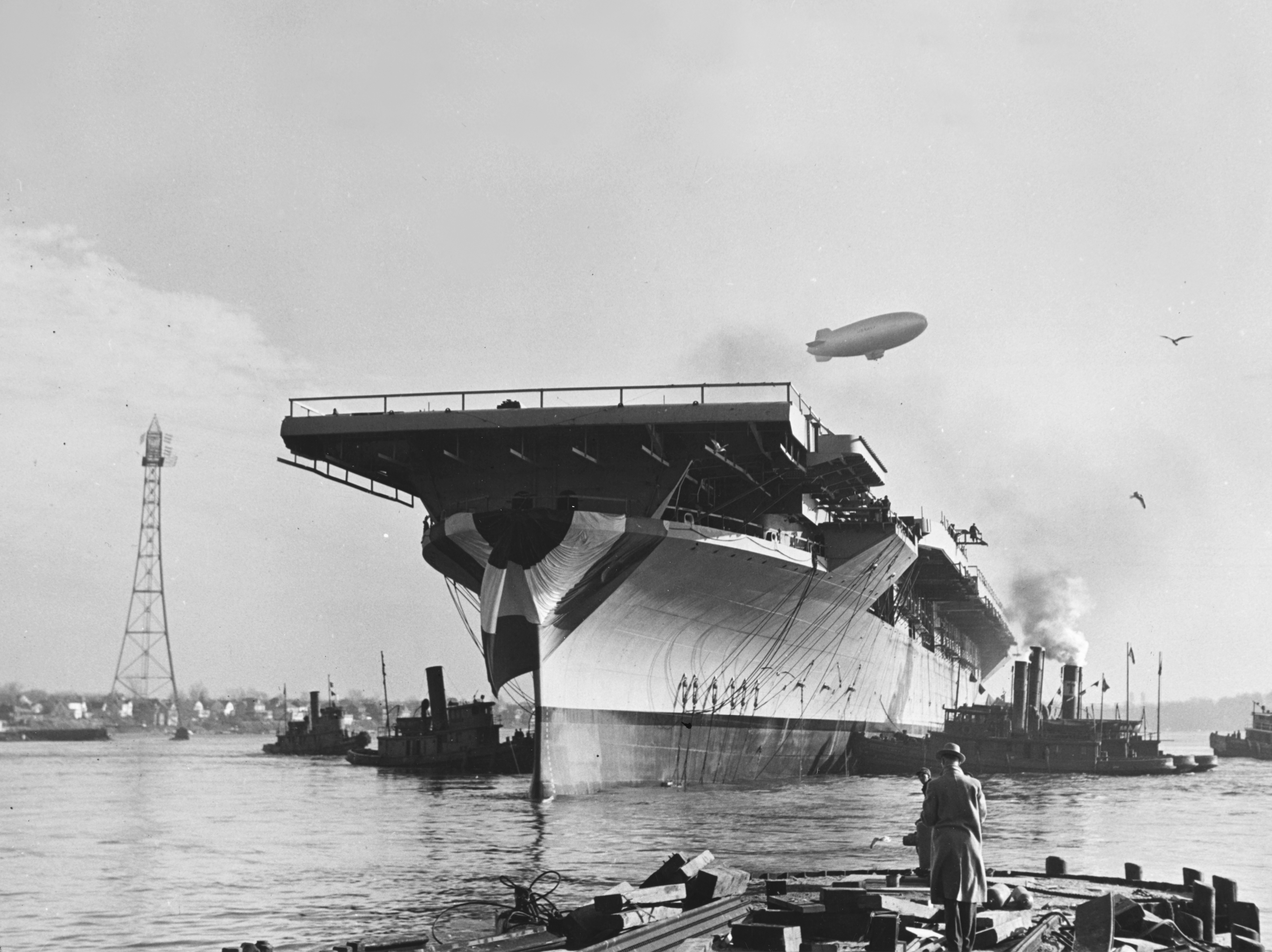 The U.S. Navy aircraft carrier USS Bunker Hill (CV-17) afloat immediately after launching, at the Bethlehem Steel Company's Fore River Shipyard, Quincy, Massachusetts (USA), 7 December 1942. Several tugs are in attendance and a Navy blimp is overhead.